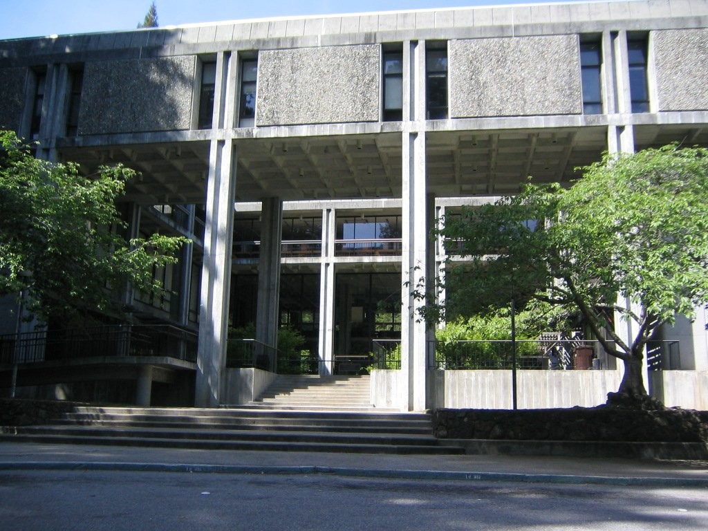 Entrance to McHenry Library at UC Santa Cruz. Photographed on 5/1/2004.